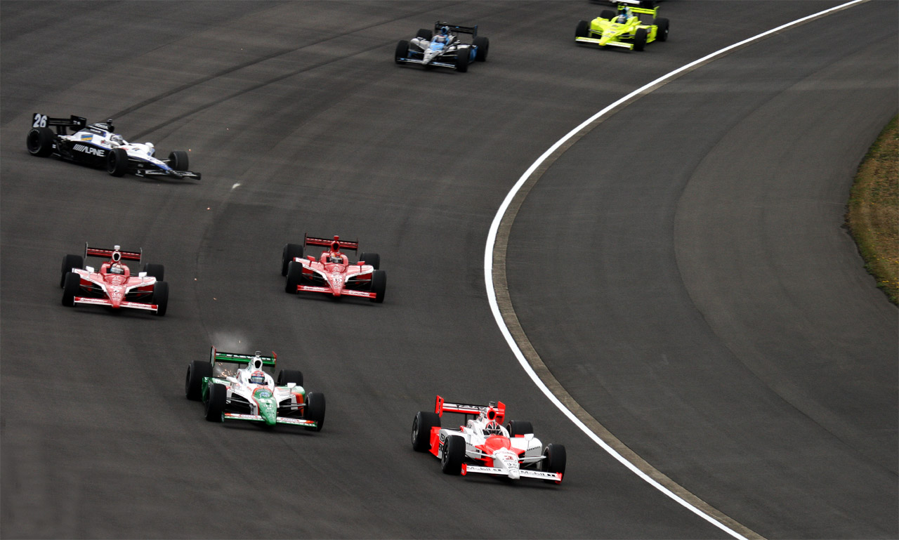 Indy Racing League 2008 Rd.3 Indy Japan 300: The first lap of the race. Hélio Castroneves (#3, Penske), Tony Kanaan (#11, Andretti Green), Scott Dixon (left, #9, Chip Ganassi), Dan Wheldon (right, #10, Chip Ganassi), Marco Andretti (spinning, #26, Andretti Green), Danica Patrick (#7, Andretti Green) and Ed Carpenter (#20, Vision).